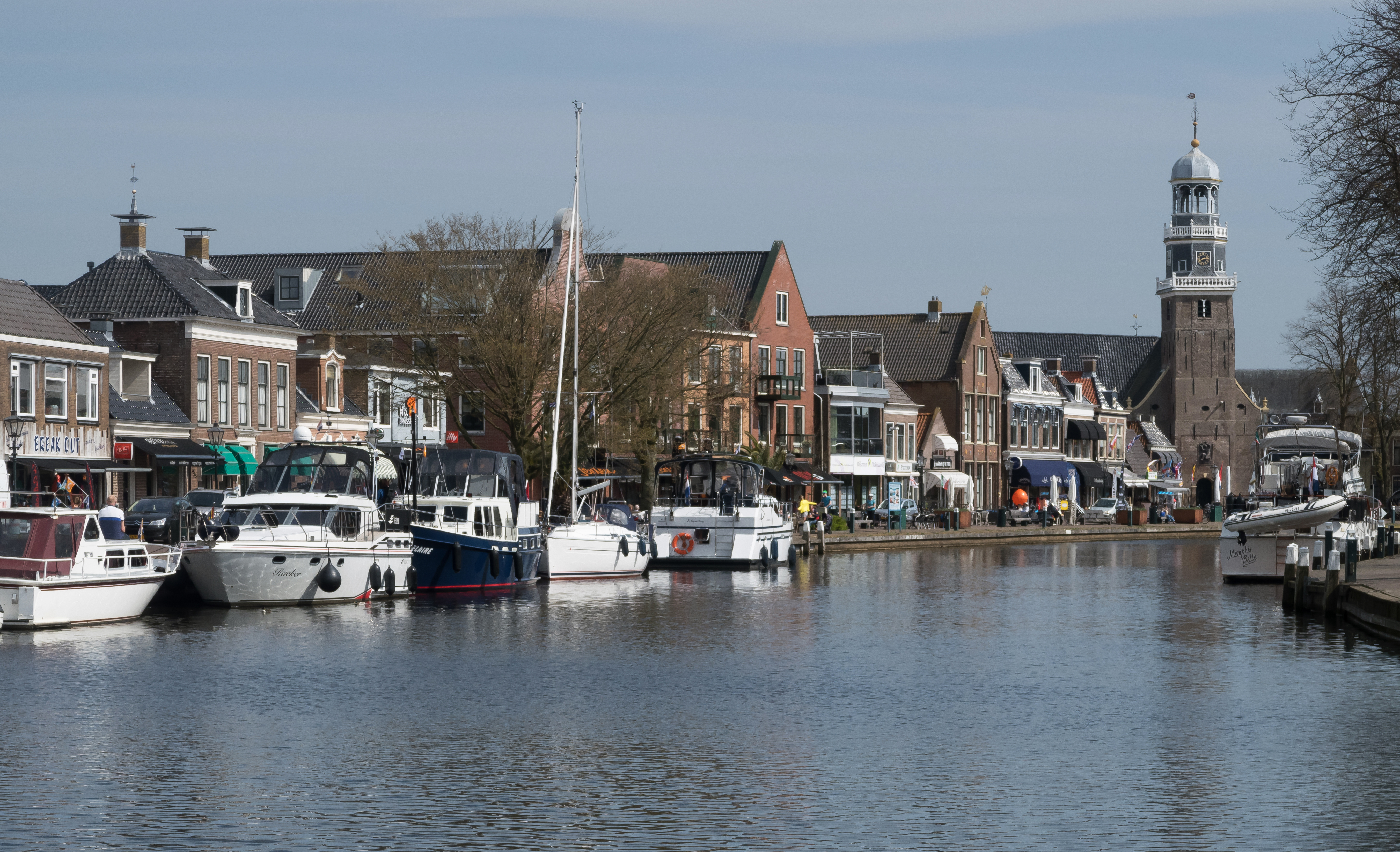 Lemmer, street view (the Kortestreek) from the drawing bridge with reformed church in background This is an image of rijksmonument number 25749 This is an image of a municipal monument in De Fryske Marren with number WN044 This is an image of a municipal monument in De Fryske Marren with number WN045 This is an image of a municipal monument in De Fryske Marren with number WN046 This is an image of a municipal monument in De Fryske Marren with number WN047